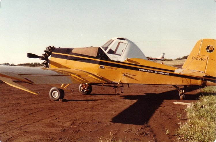 I took this photo of an Ayres S-2R Thrush (C-GVVZ) at St Albert Alberta in 1984